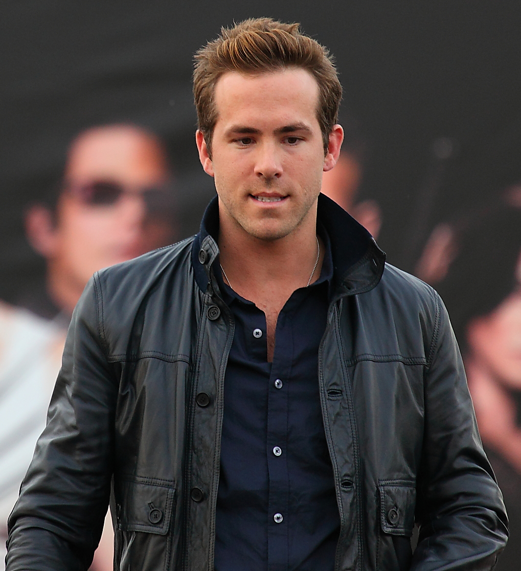 Ryan Reynolds at the X-Men Origins: Wolverine premiere in Tempe, Arizona.